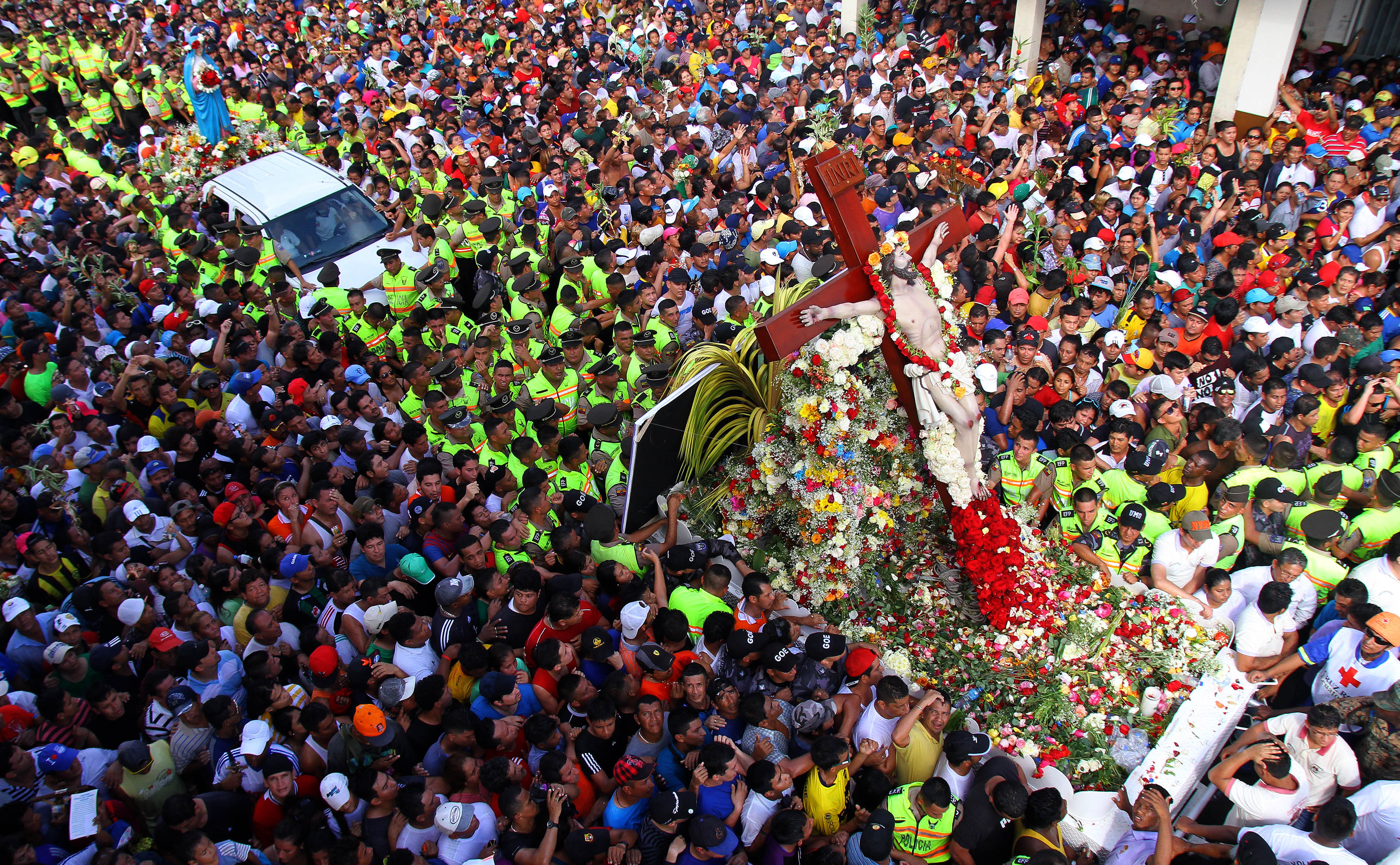 Guayaquil, viernes 03 de abril del 2015 (ANDES).-Miles de feligreses acompañaron a la imagen de Cristo en una procesión que recorre una largo tramo de la calle a iglesia Espiritu Santo en el sureste de Guayaquil llega la imagen dFeligreses participaron de la procesión al Cristo del ConsueloFoto:César Muñoz/ANDES